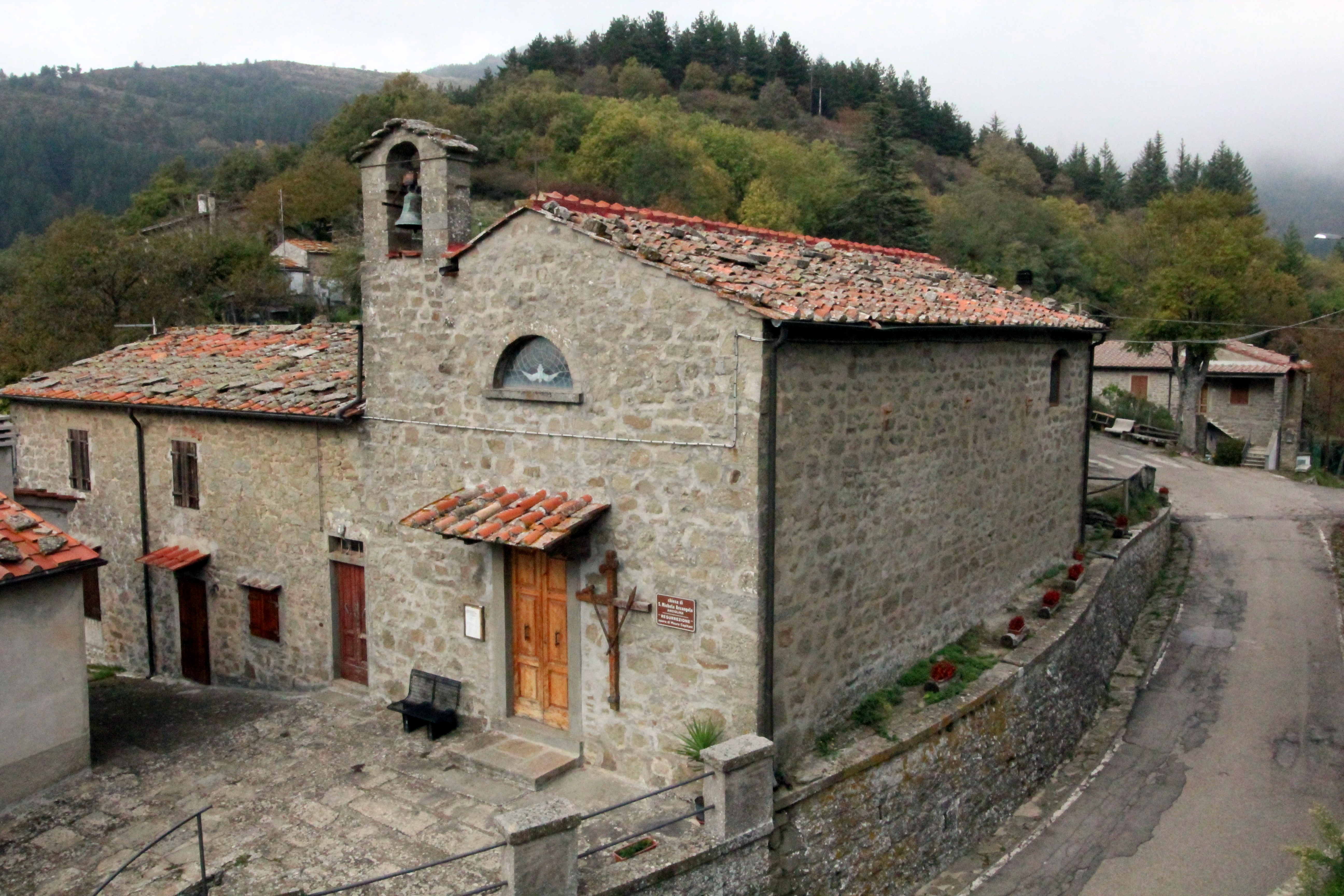 Church San Michele Arcangelo, in Anciolina, hamlet of Loro Ciuffenna, Province of Arezzo, Tuscany, Italy